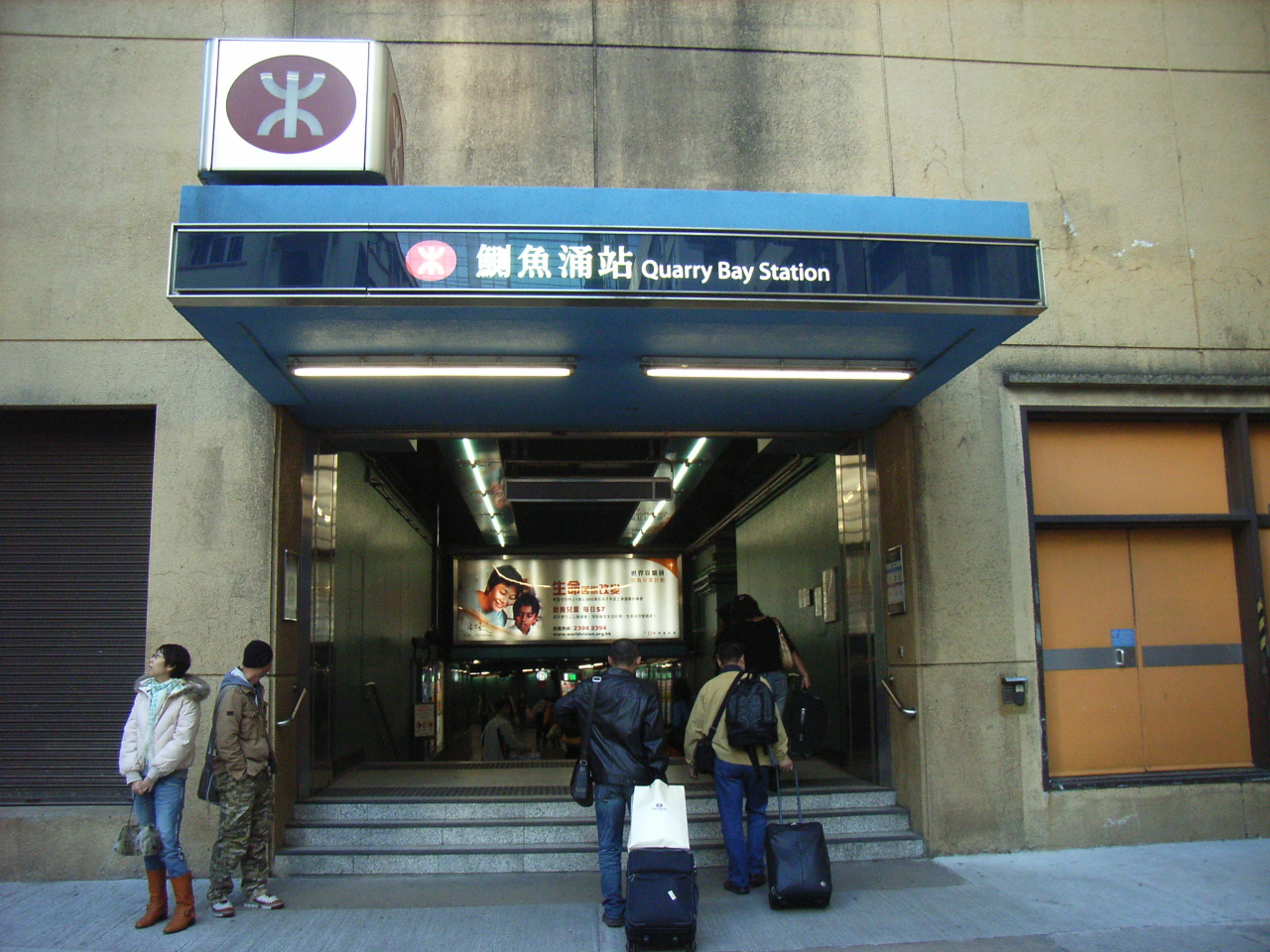 Model Lane, Quarry Bay (MTR) entrance, King's Road, North Point, Hong Kong. Photographer is User:Huang Kong Hing